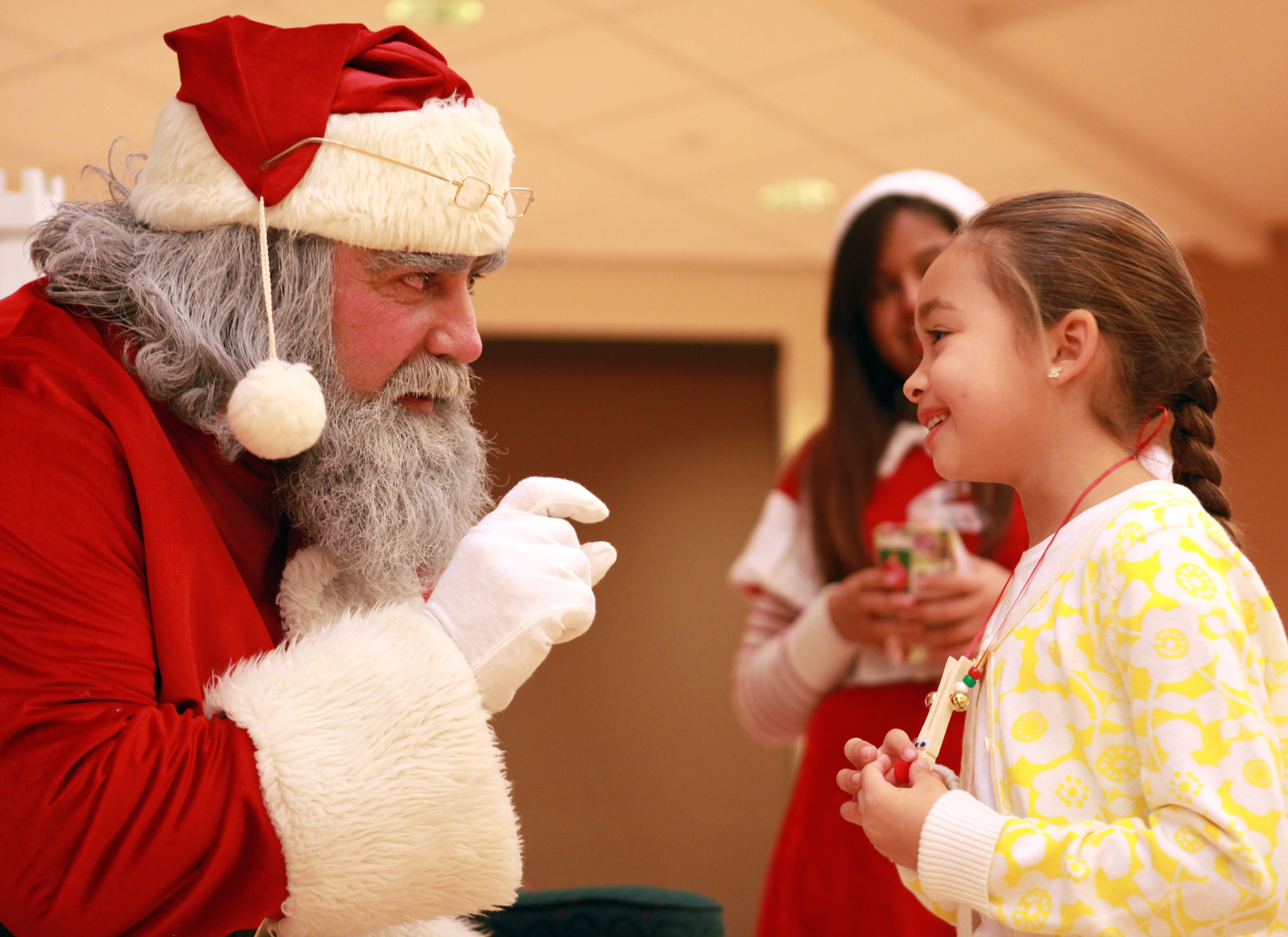 A girl has a conversation with Santa Clause before sitting on his lap during the annual 24th Marine Expeditionary Unit Christmas Party Dec. 8, at the Marston Pavilion on Camp Lejeune, N.C. Marines with the 24th MEU and their families gathered together to celebrate the holiday season.